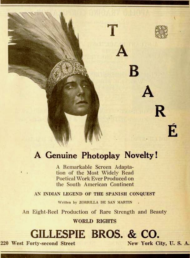 Ad for the Mexican film Tabaré (1919), on page 1102 of the February 22, 1919 Moving Picture World.